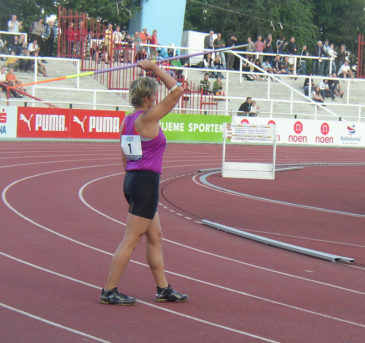 Czech athlete Barbora Špotáková preparing for her sixth attempt in javelin throw at 17th edition of the Josef Odložil Memorial (EAA Premium Meeting, Na Julisce Stadium, Prague, Czech Republic, 14 June 2010). Špotáková ranked second for this sixth attempt of 65,71m.